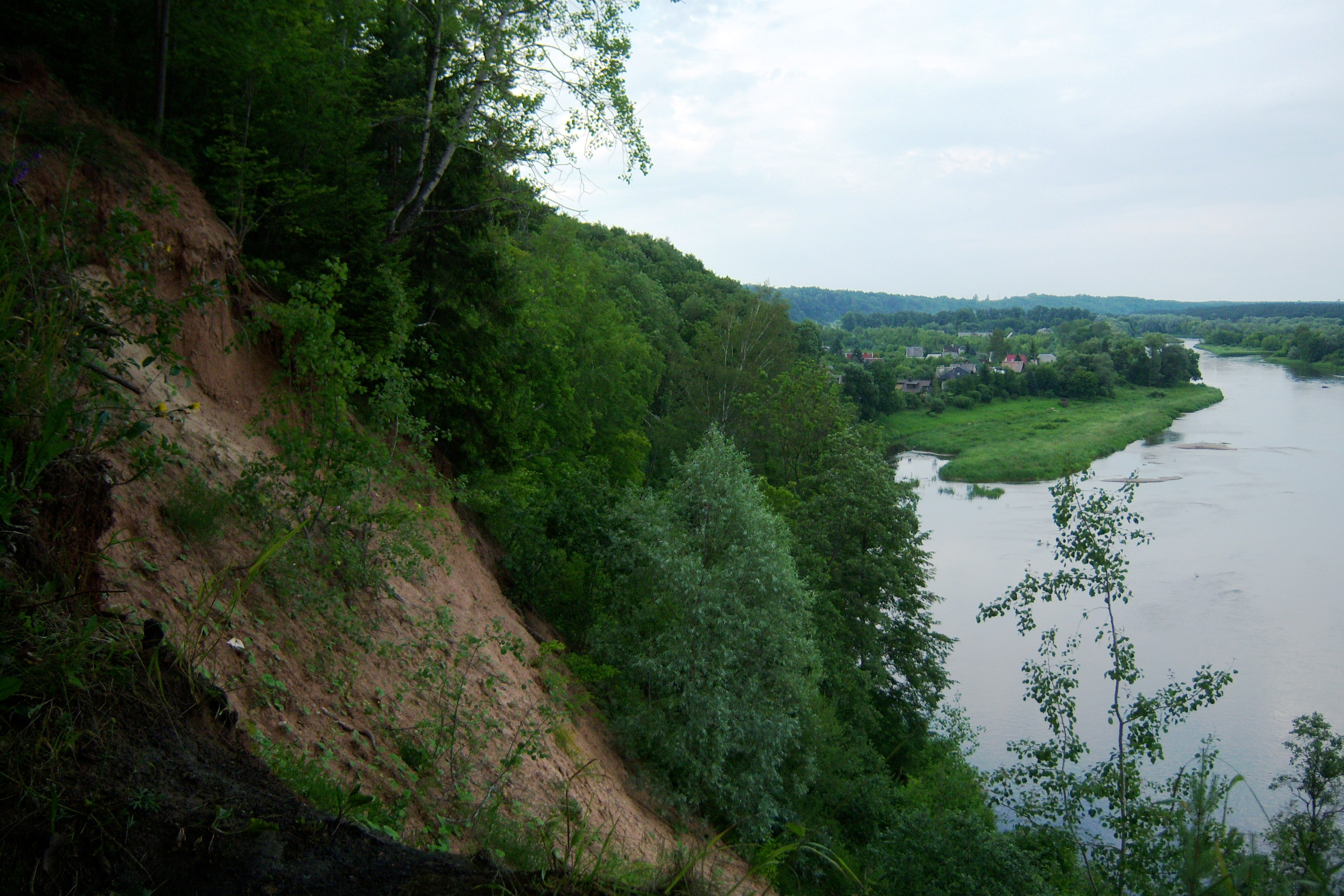 Exposure on Neris River in Andruškoniai, Jonava district, Lithuania